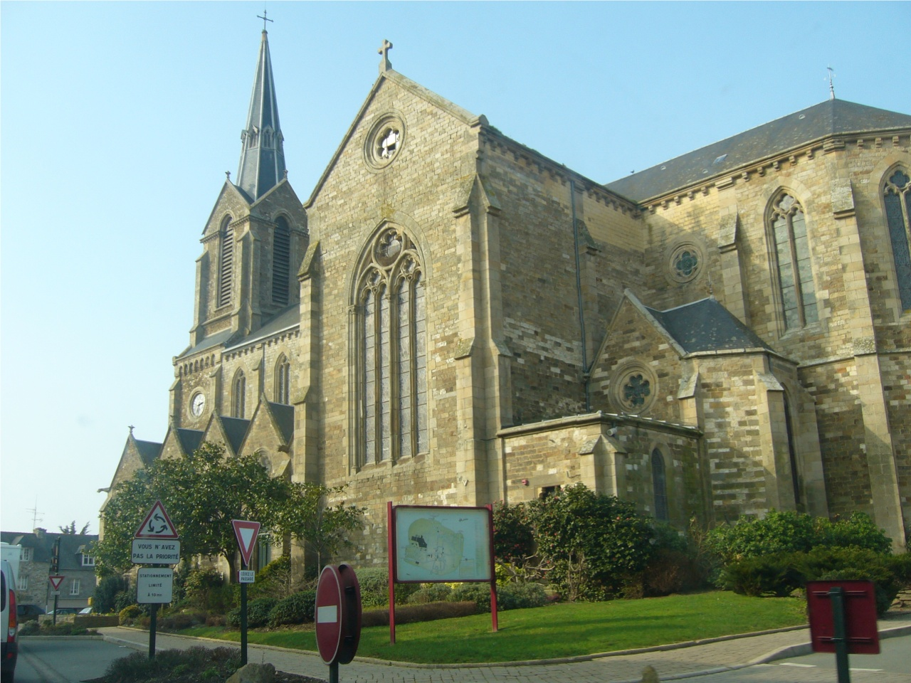 Church of Ploubalay's village (Côtes-d'Armor, France)